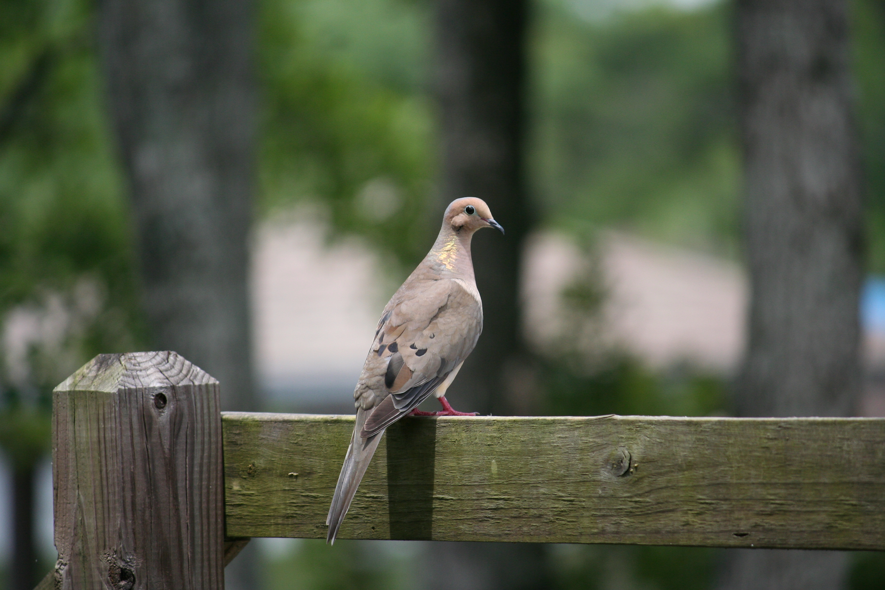 Mourning dove in Orlando, FL